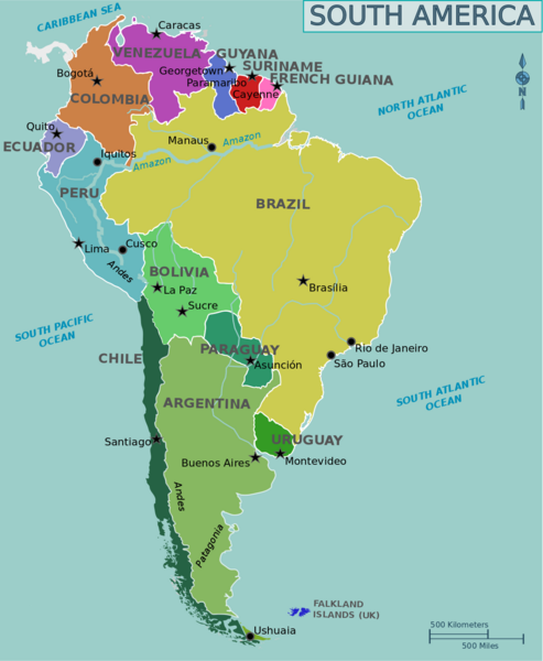 Map of South America for use on Wikivoyage, English version